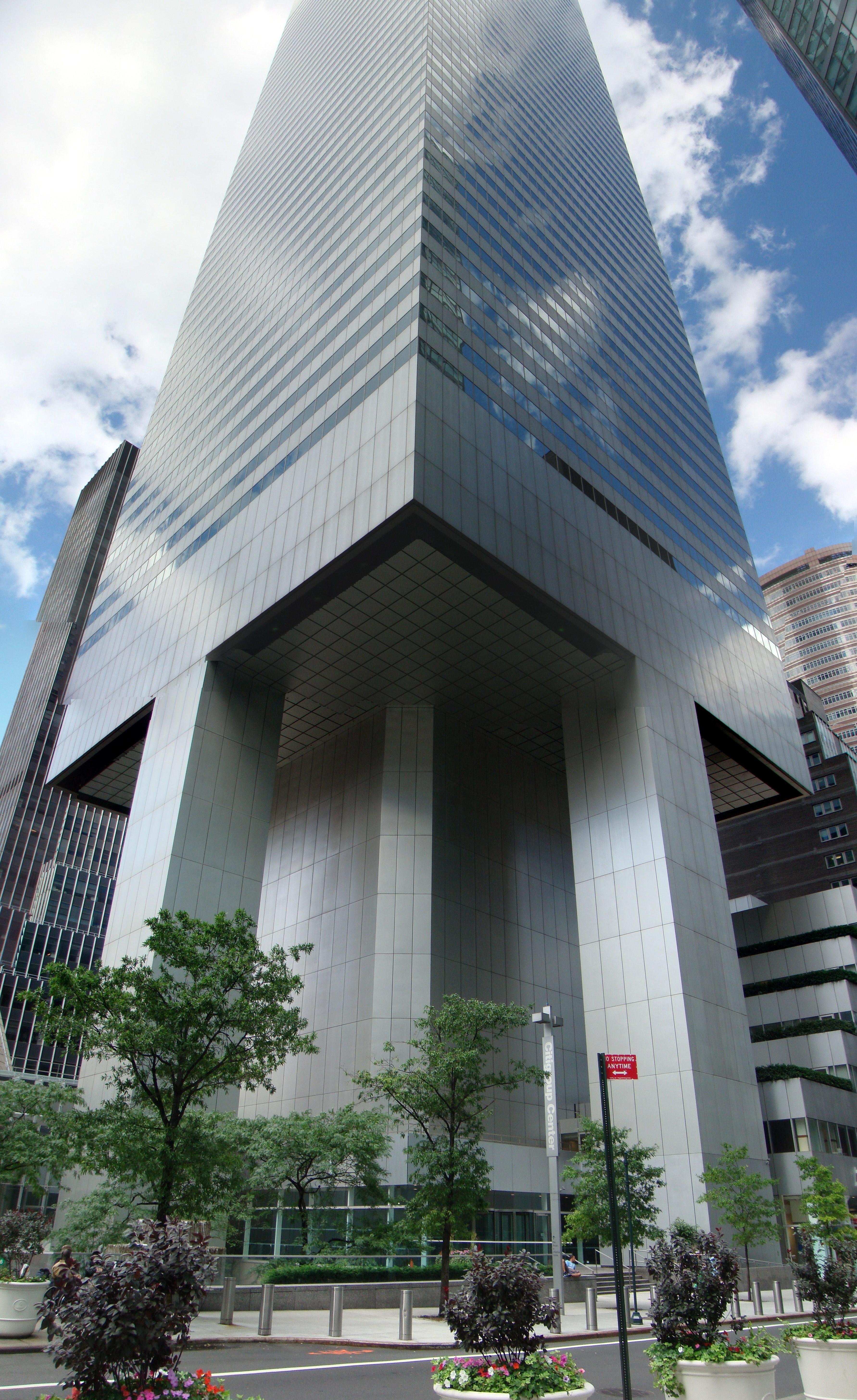 Citicorp Center